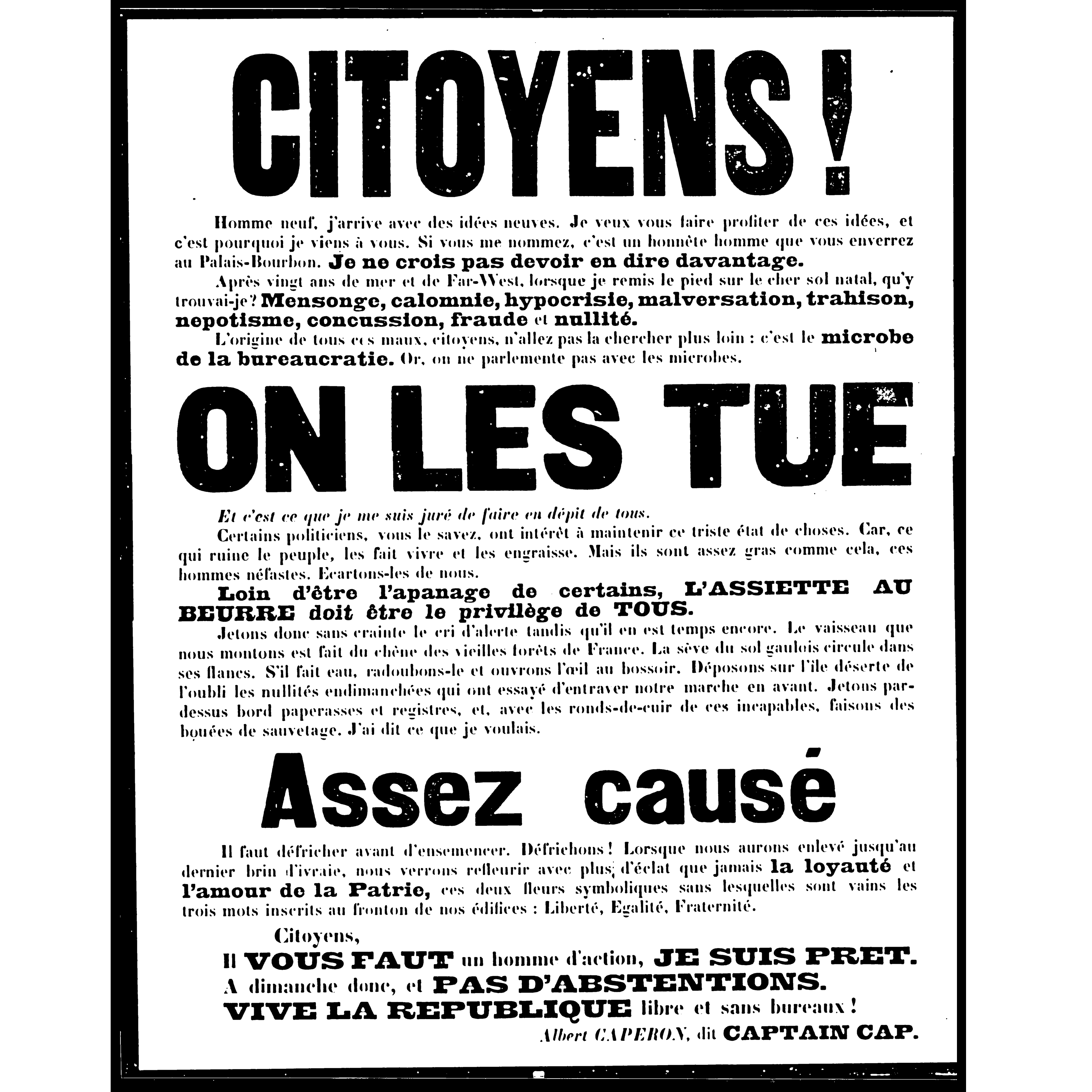 Electoral poster for the Albert Caperon's list, in which Alphonse allais was.